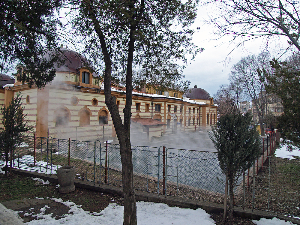 Cifte Hamam (Double Bath) mineral bath in Kyustendil, Bulgaria